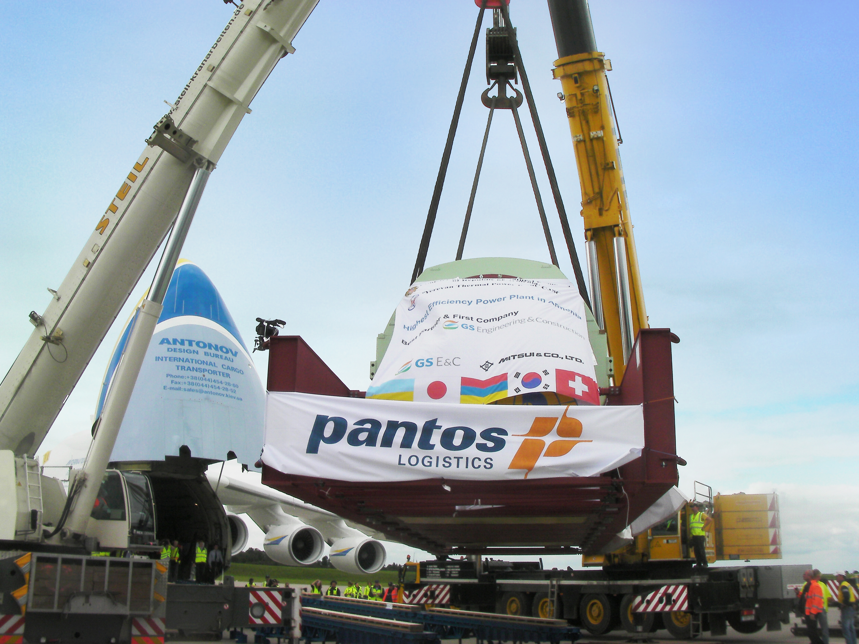 Air Cargo - Transportation of a Power Plant to Armenia